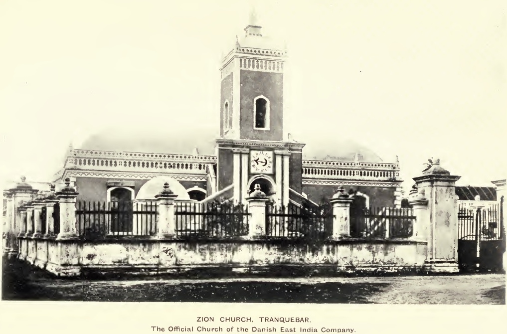 Zion Church, Tranquebar in the year 1922.